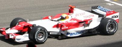 Ralf Schumacher driving for Toyota at the 2007 Bahrain Grand Prix.(cropped from the original flickr image)